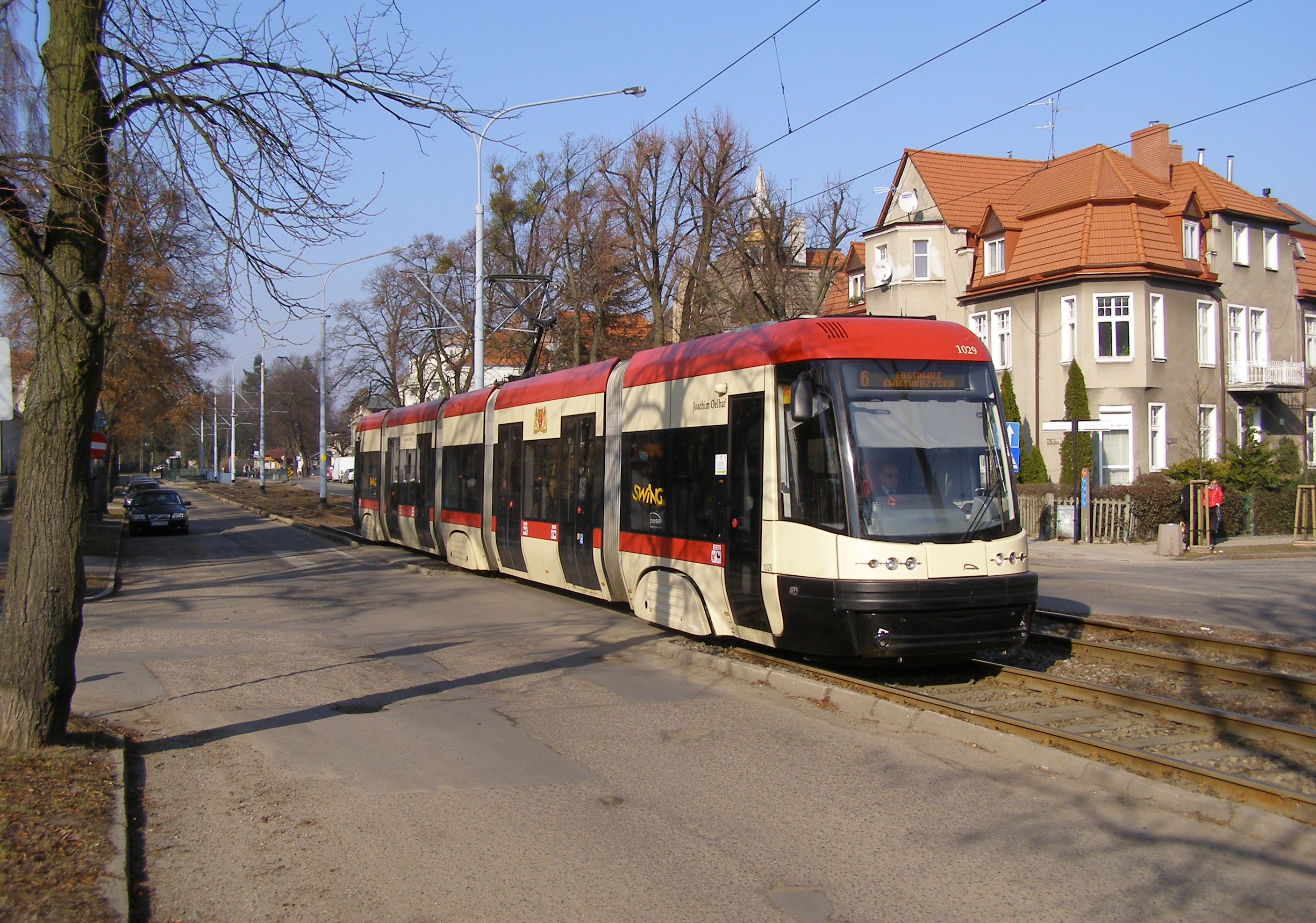 Gdańsk - PESA 120Na tram #1029 on line No. 6 towards Łostowice in Wita Stwosza str.